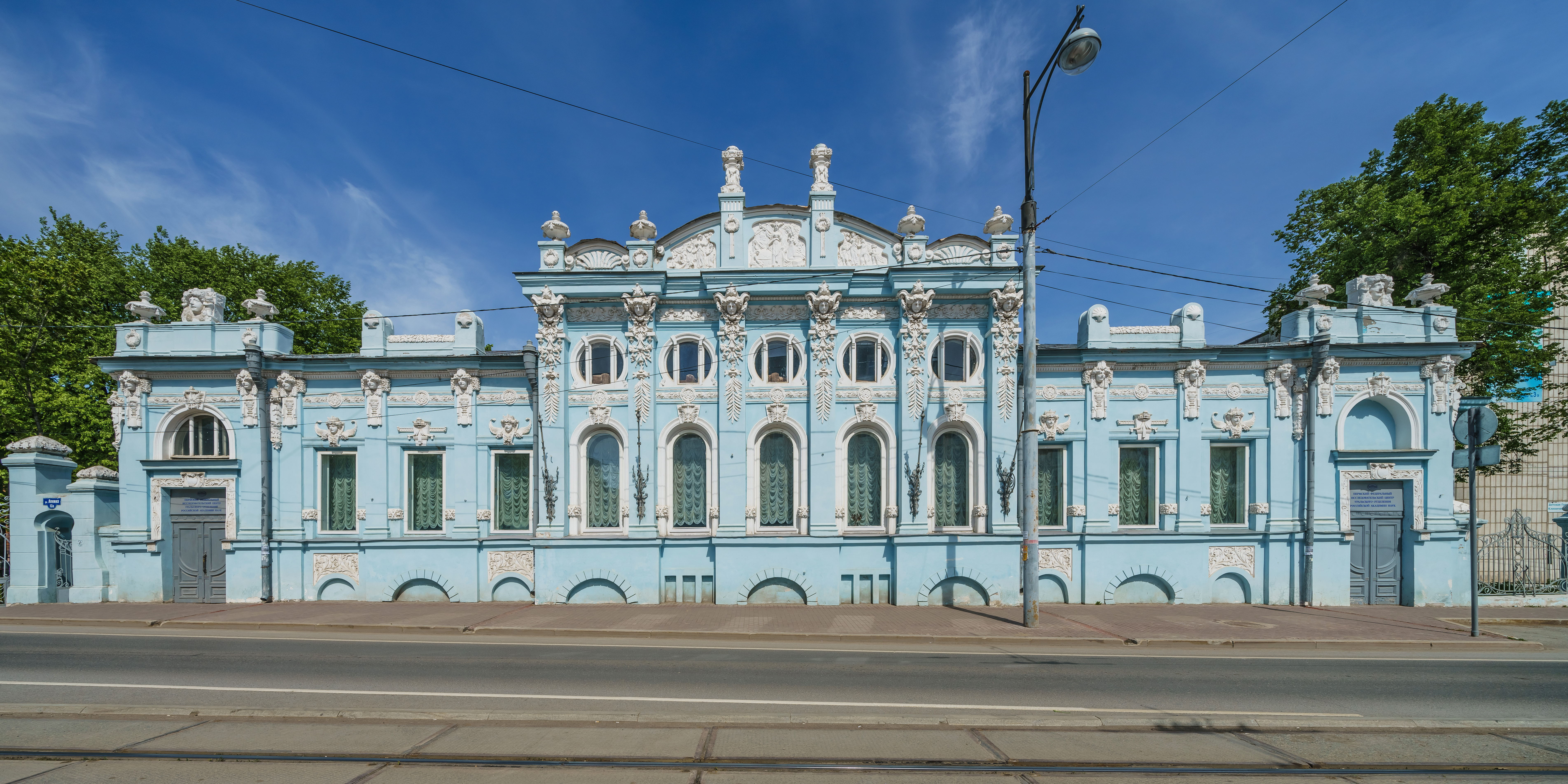 Building at Lenina Street 13a in Perm, Russia